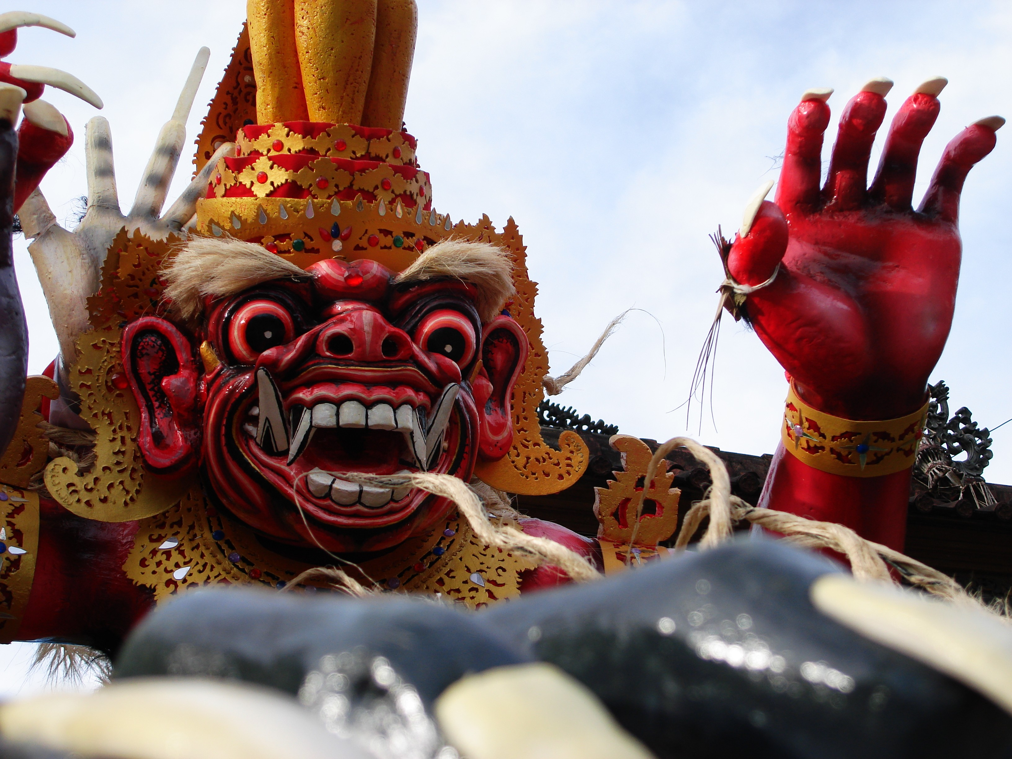 The Ogoh-ogoh monsters symbolize the evil spirits surrounding Balinese environment which have to be got rid of and this happens a day before Nyepi. The Balinese open their New Year in silence. This is called Nyepi Day, the Balinese day of Silence.